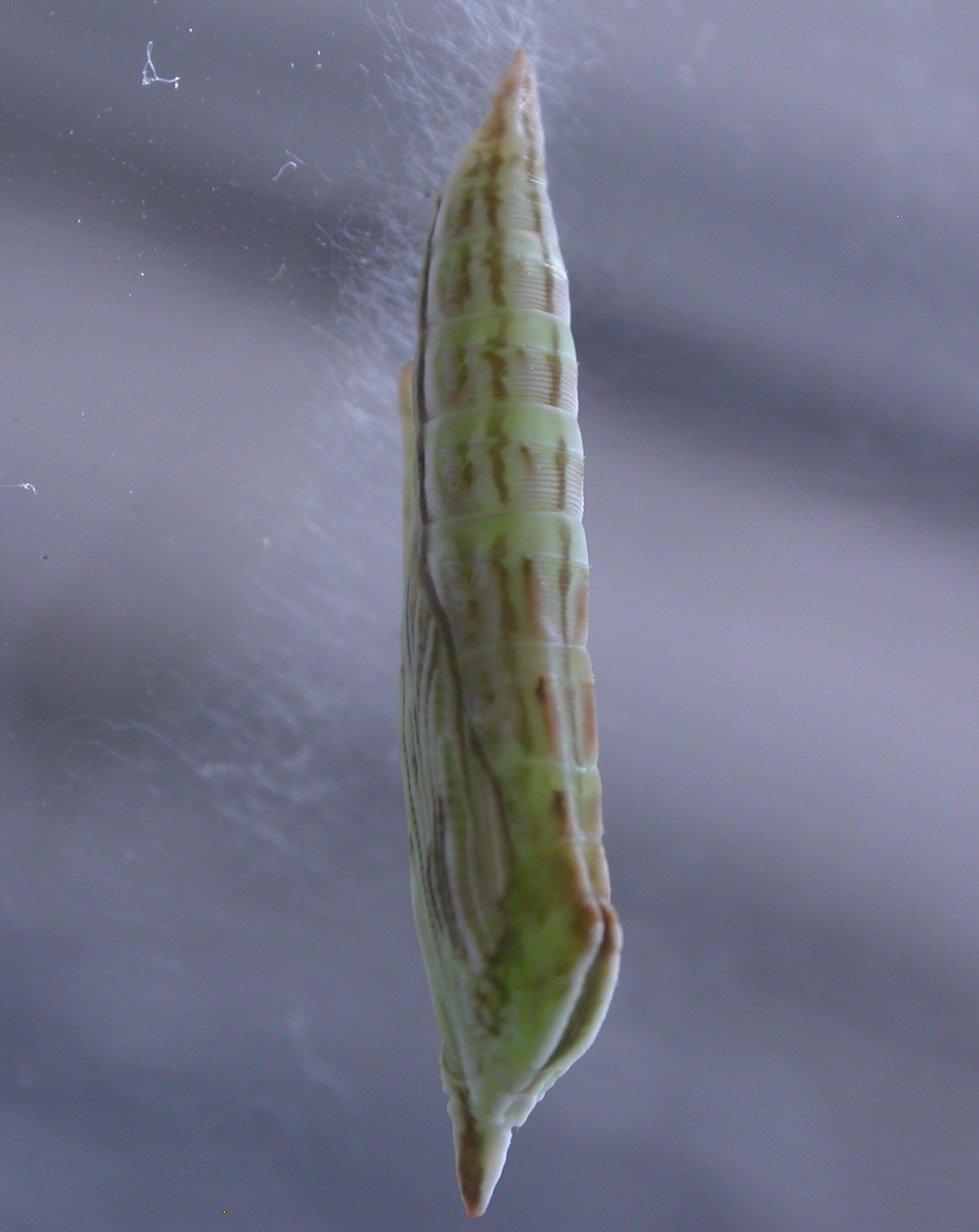 Platyptilia tetradactyla, pupa (from larva in Tussilago), Hellerup, Denmark, 4 June 2006